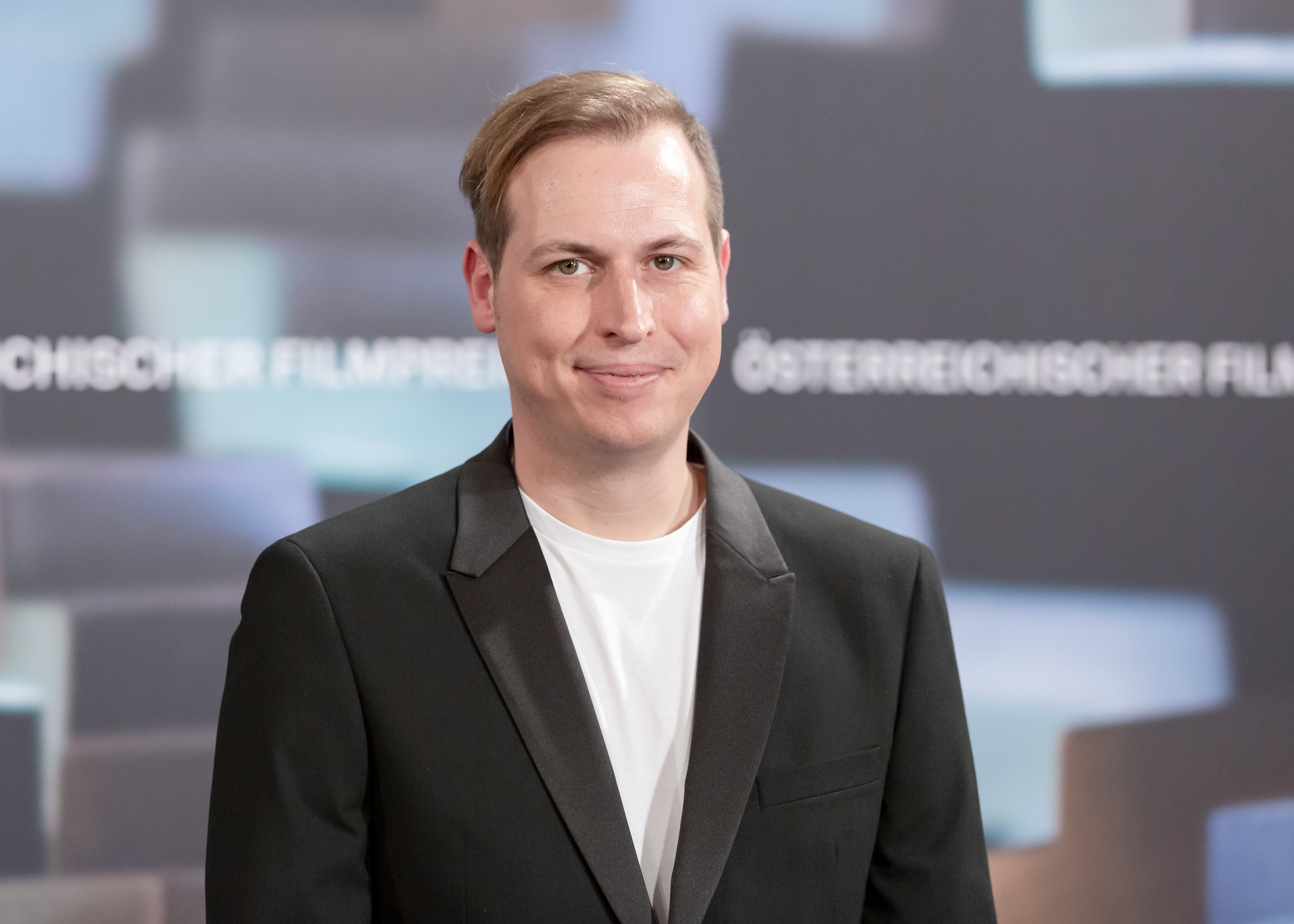 Florian Forsch (director "Bester Mann"), photo call at the Austrian Film Awards 2019 (Rathaus, Vienna,Austria).